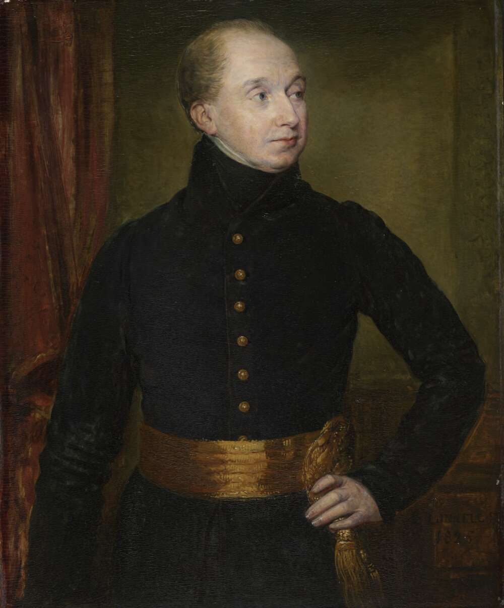 Portrait of Ralph Darling, Governor of New South Wales. Oil on wood panel ; 30.3 x 24.9 cm.